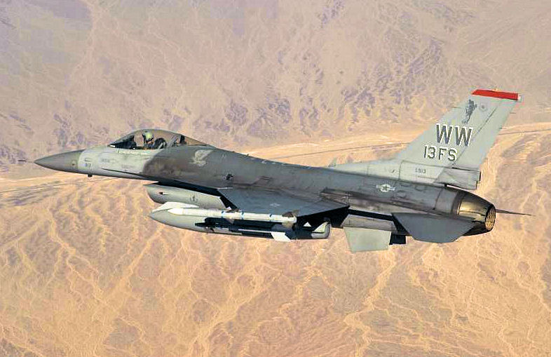 USAF F-16C block 50 #92-3913 from the 13th FS departs for the Fort Irwin ranges on August 20th, 2008, during exercise Green Flag 080-9 at Nellis AFB. [USAF photo by MSgt. Kevin J. Gruenwald]